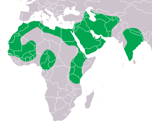 distribution of the striped hyena